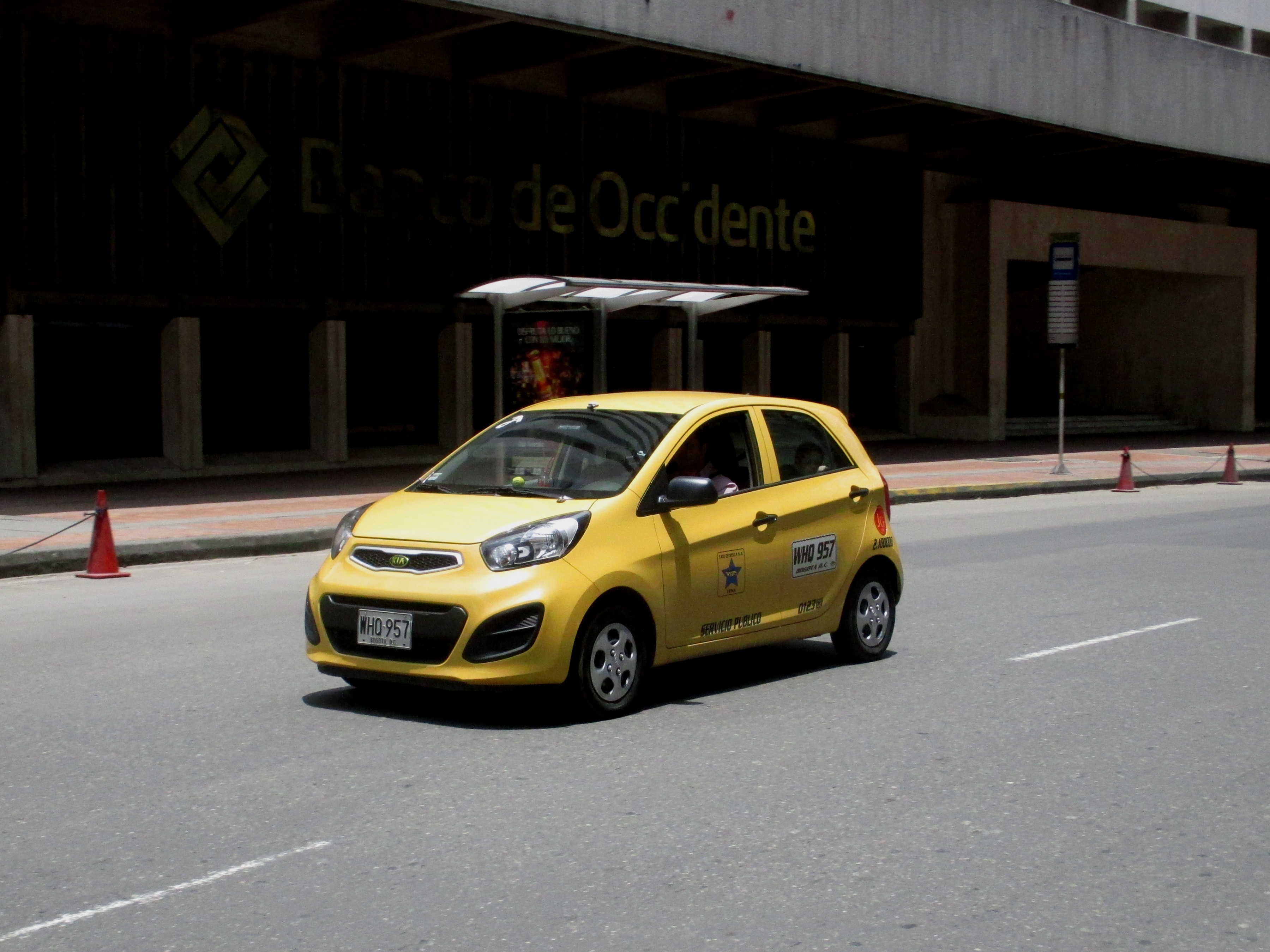 Bogotá